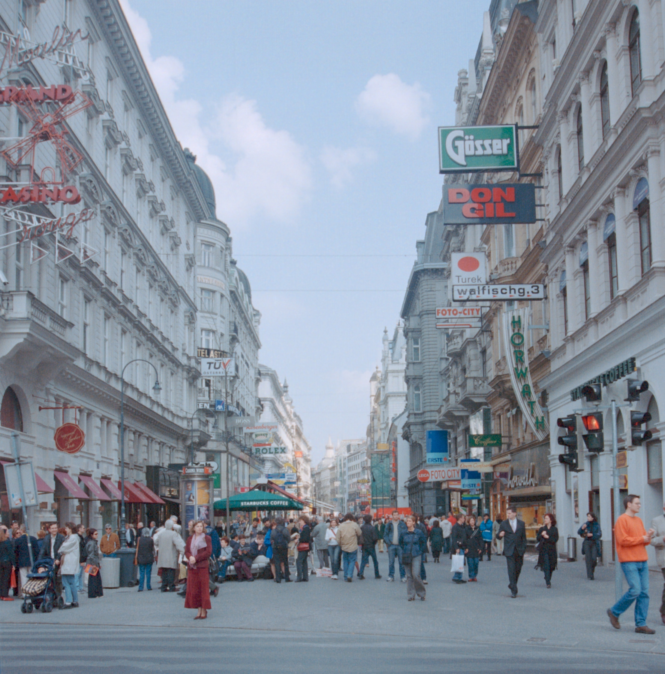 Kärntner Straße, Vienna, Austria, May 2003. At the left of the frame is the Hotel Sacher; the Opera House is behind and to the left of the camera position.